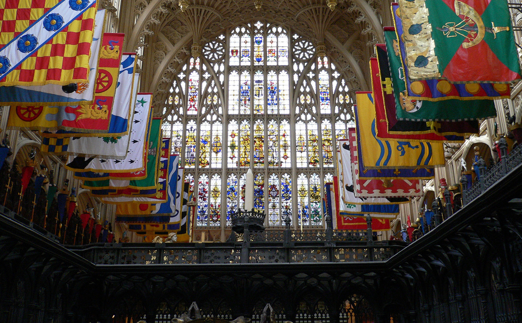 Interior of Henry VII Lady Chapel